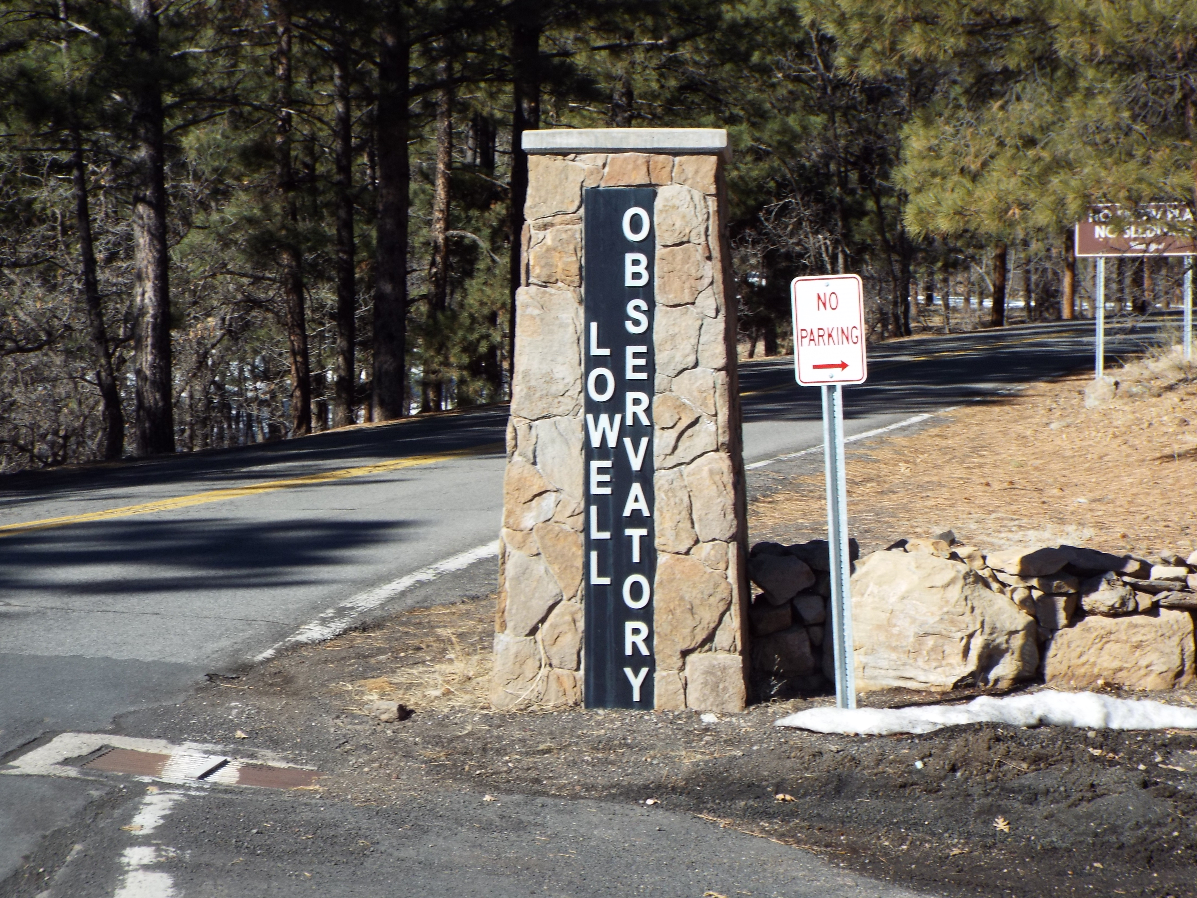 Lowell Observatory main entrance in Flagstaff, Az.